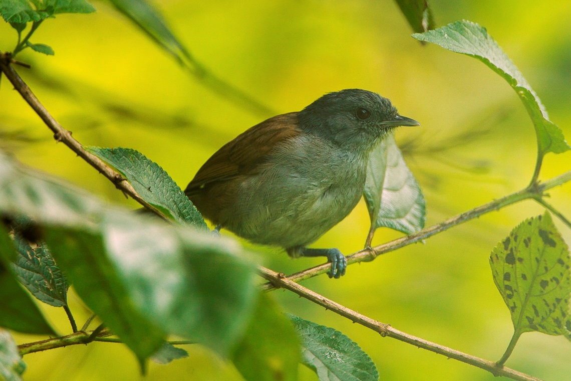 African Hill Babbler - Kenya_S4E9067